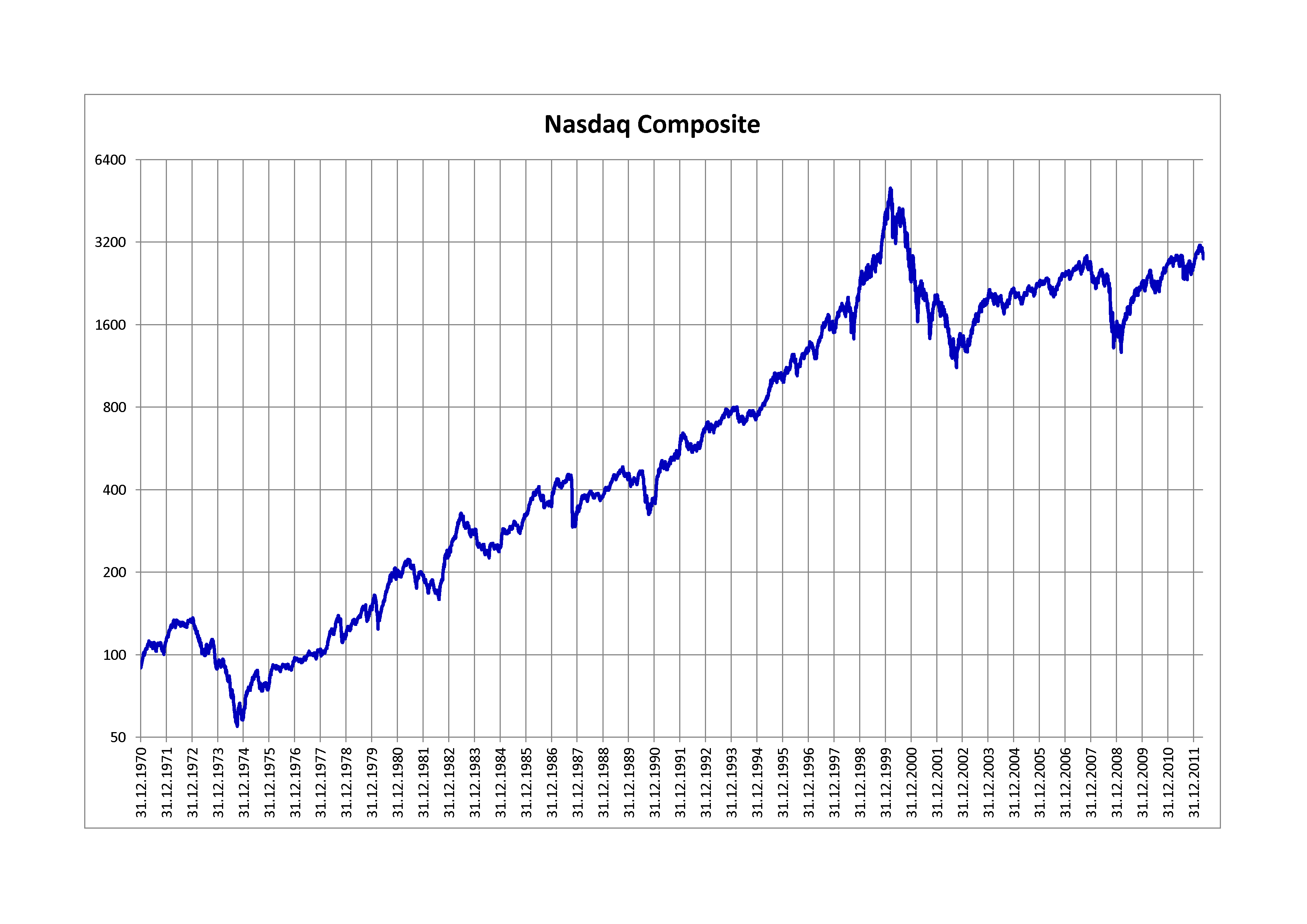 Nasdaq Composite from December 1970 to May 2012 (daily closings).